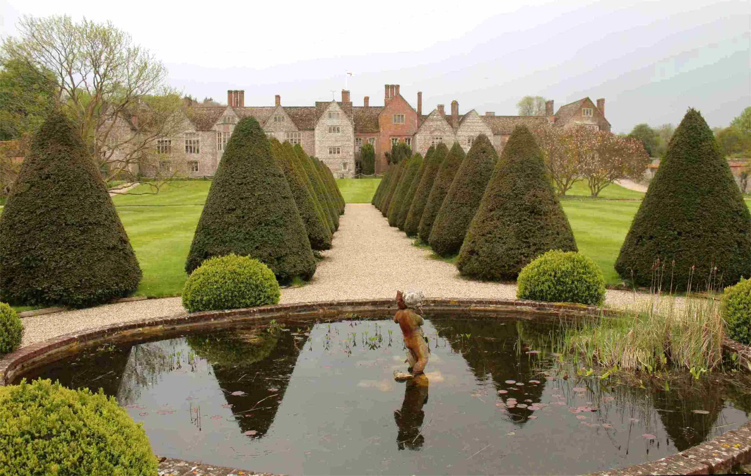 Littlecote house from the north with avenue of trees and pond